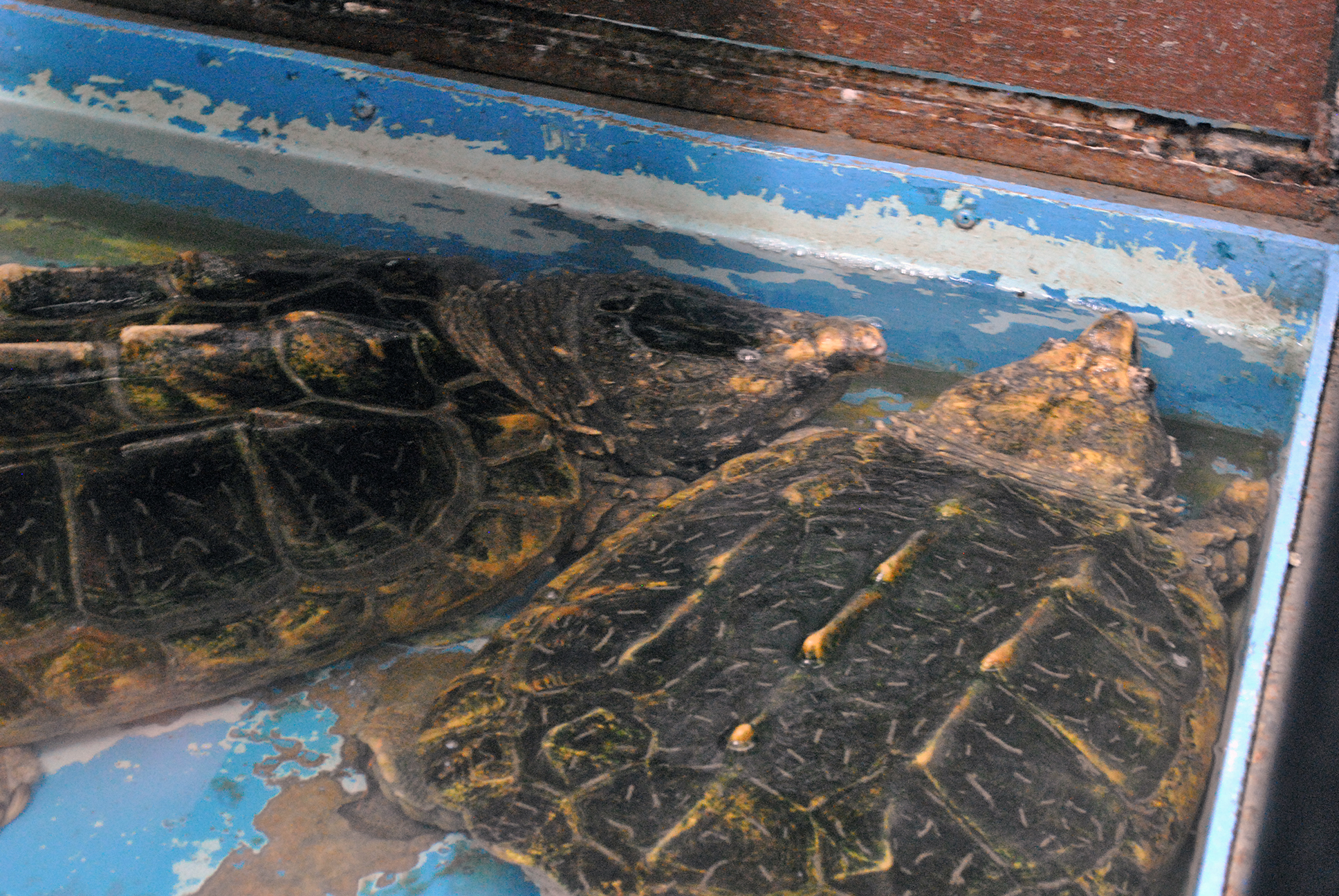 Alligator snapping turtle in Pata Zoo